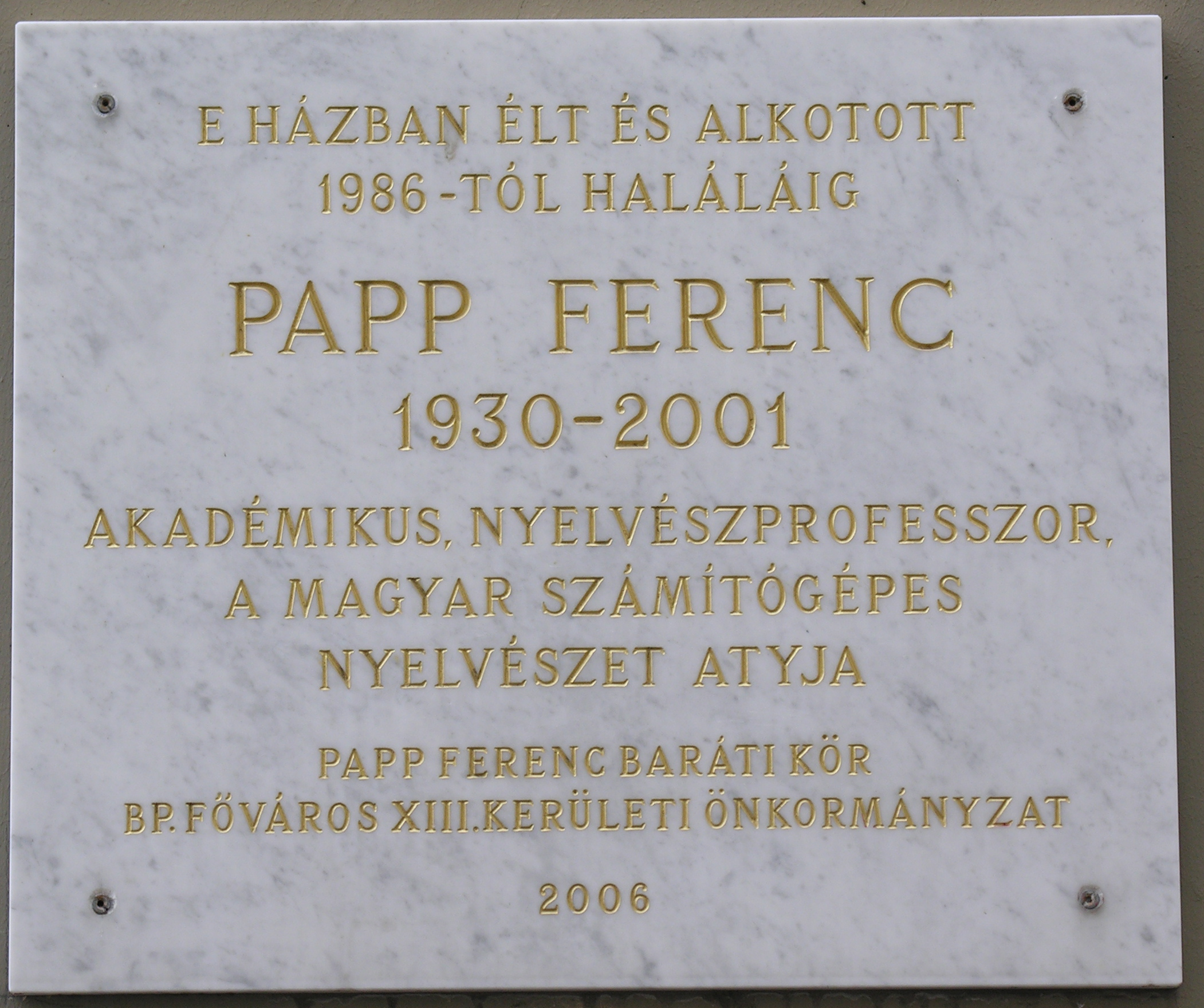 Commemorative plaque of the linguist Ferenc Papp in Budapest District XIII, Gogol Street No 27